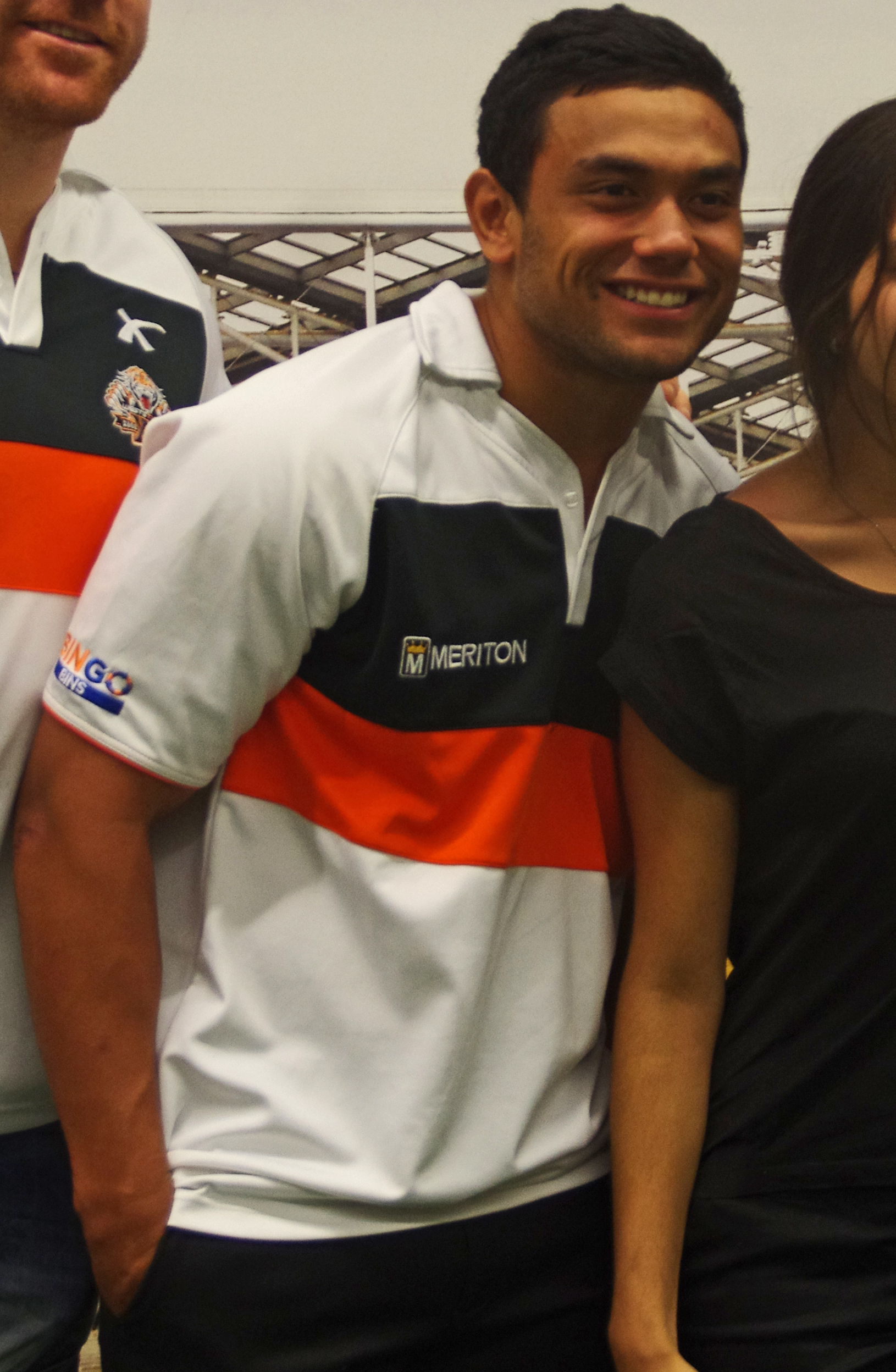 David Nofoaluma